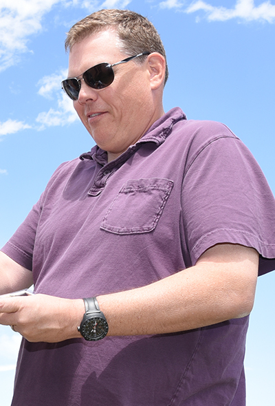 CHEYENNE MOUNTAIN AIR FORCE STATION, Colo. – Kevin Heffernan (right) and Steve Lemme, members of the comedy troupe Broken Lizard and stars of the film “Super Troopers”, sign an autograph for Senior Airman Delmekia Black, 721st Security Forces Squadron during a visit to Cheyenne Mountain Air Force Station on May 6, 2016. Lemme and Heffernan visited and toured the facility, and signed autographs for CMAFS Airmen. The visit was part of the ongoing CMAFS 50th Anniversary celebration.